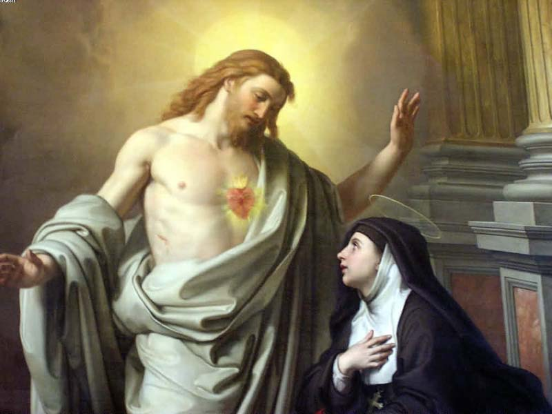 Apparizione a Marguerite Marie Alacoque